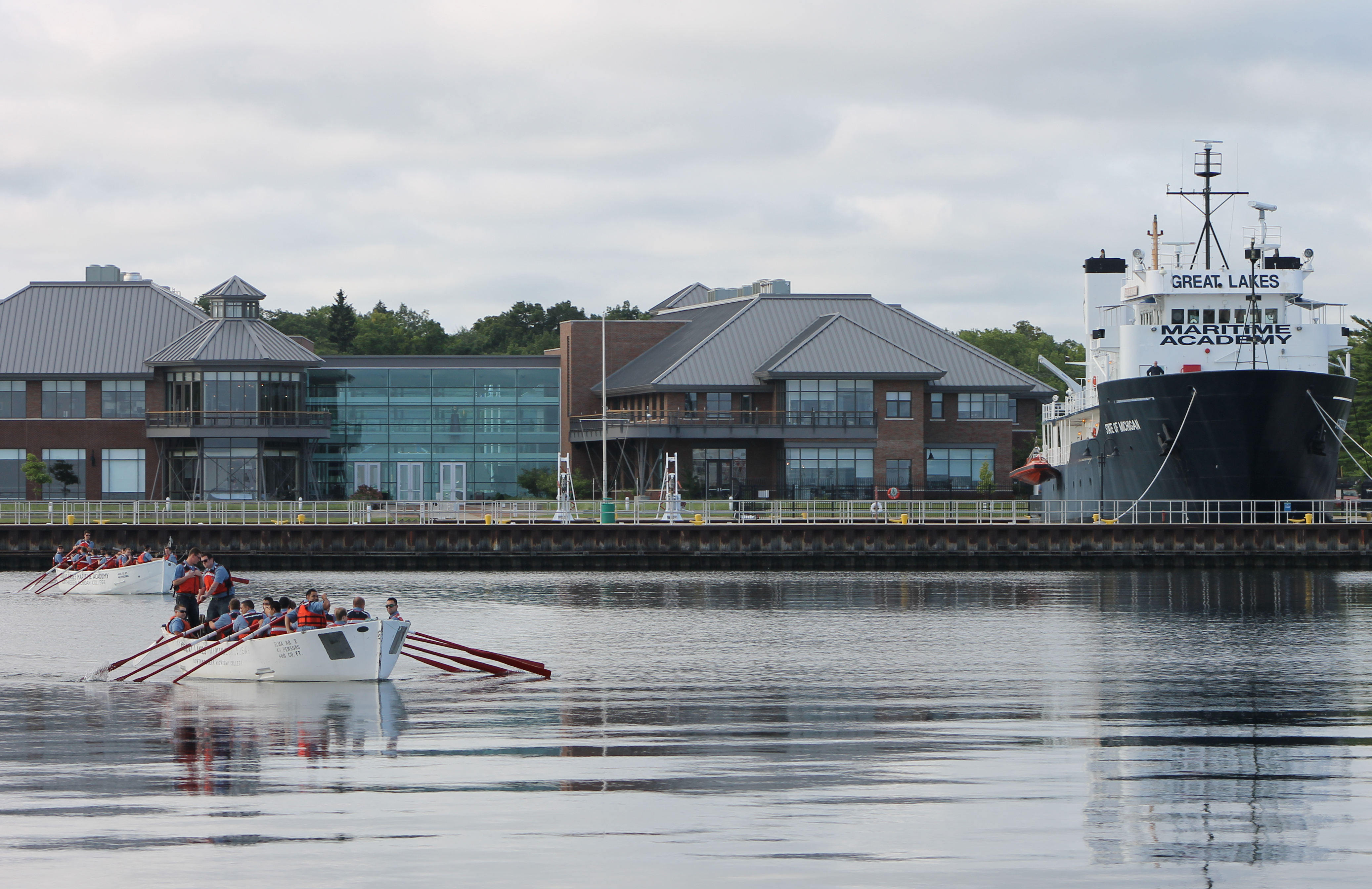 Cadets learn hands on skills such as rowing lifeboats from their very first weeks at the Academy. In the background, the T/S State of Michigan is moored in our harbor with the Great Lakes Maritime Academy in the background.